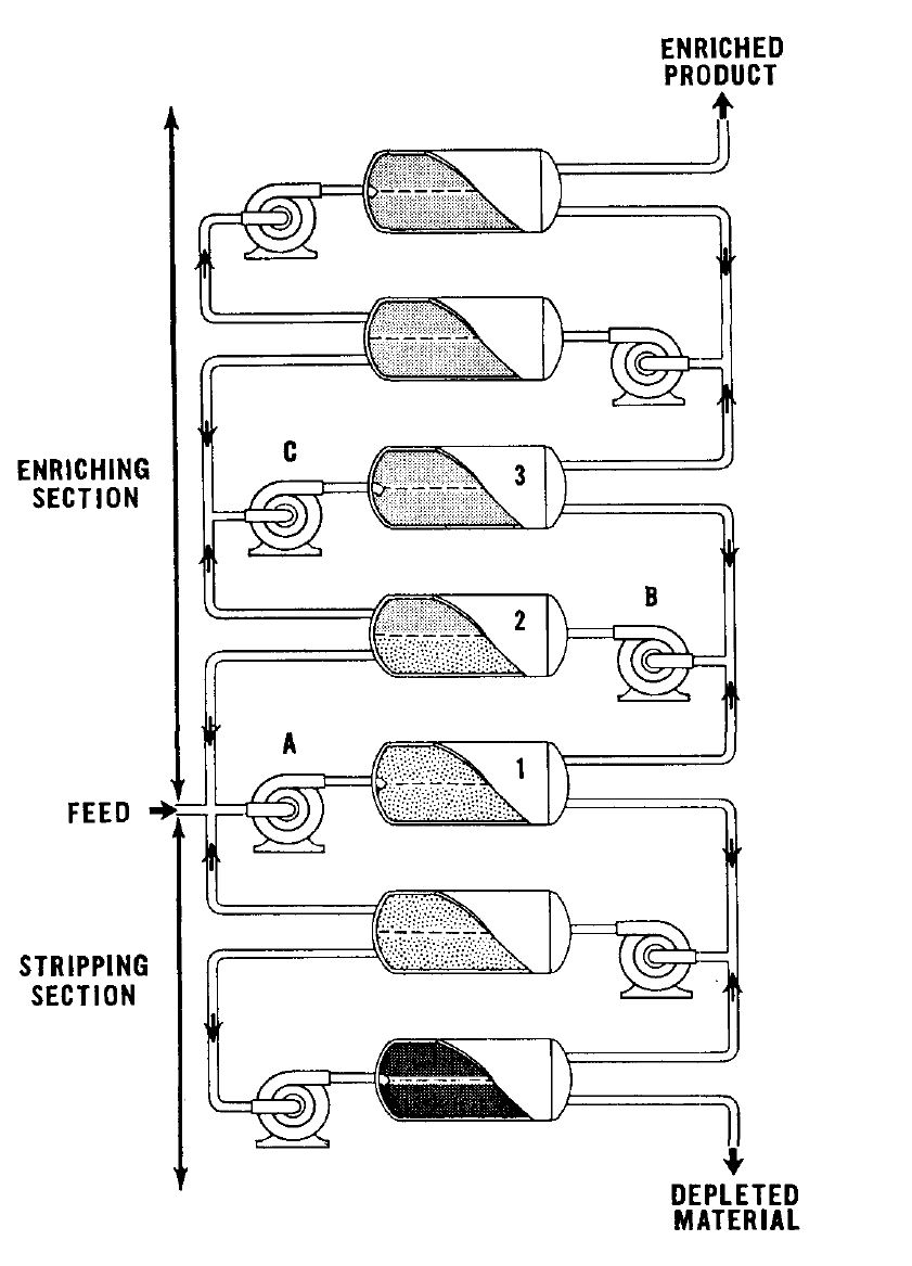 Diagram of gaseous diffusion process